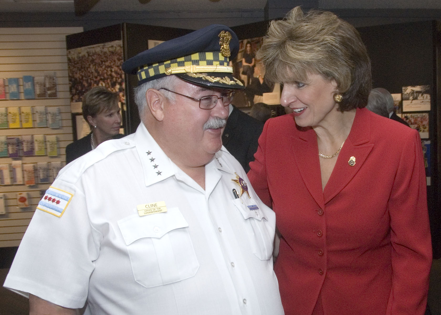 Karen Tandy is seen here with Phil Cline at the Target America exhibit at the Chicago Museum of Science and Industry.